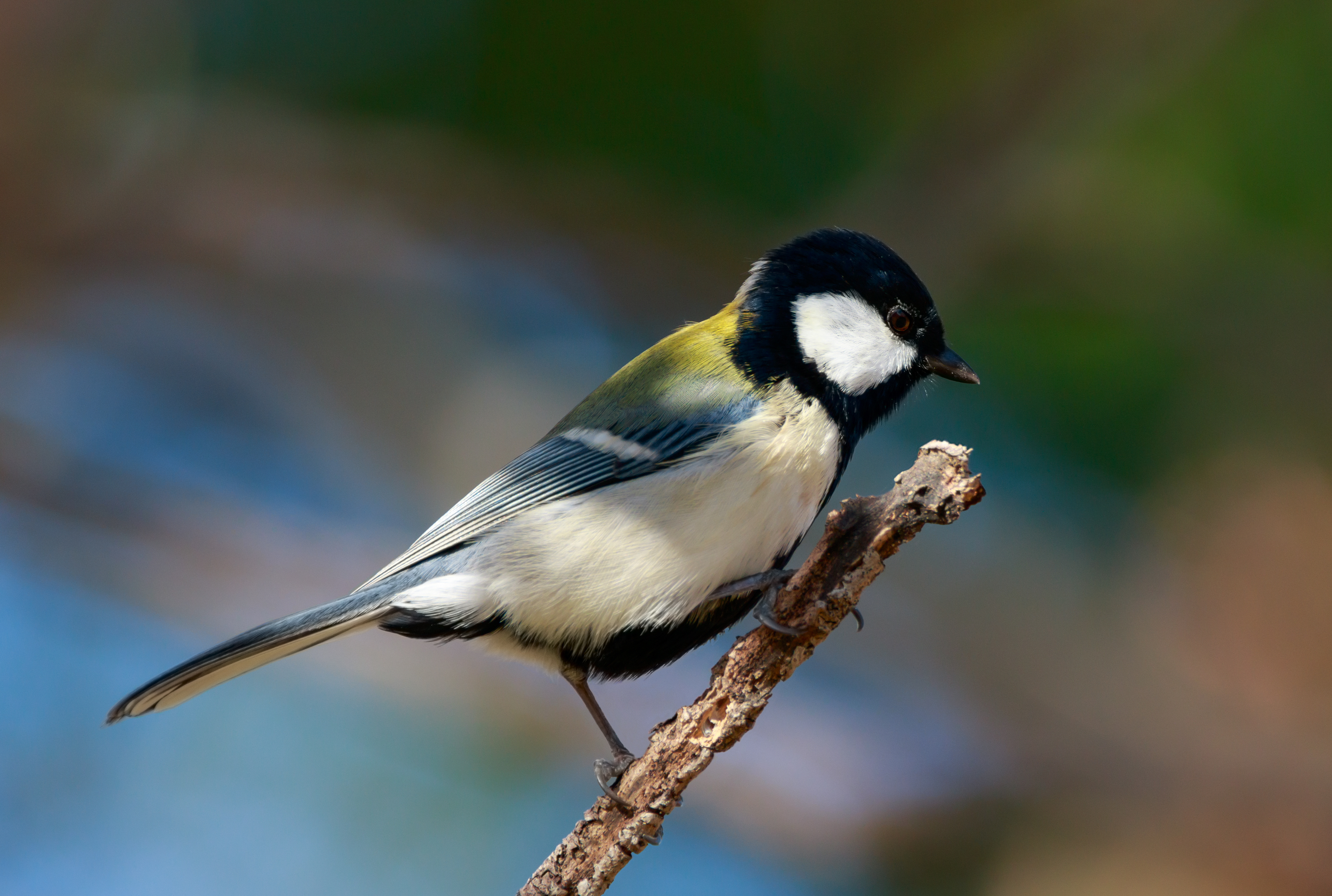 Japanese tit in Suita, Osaka.